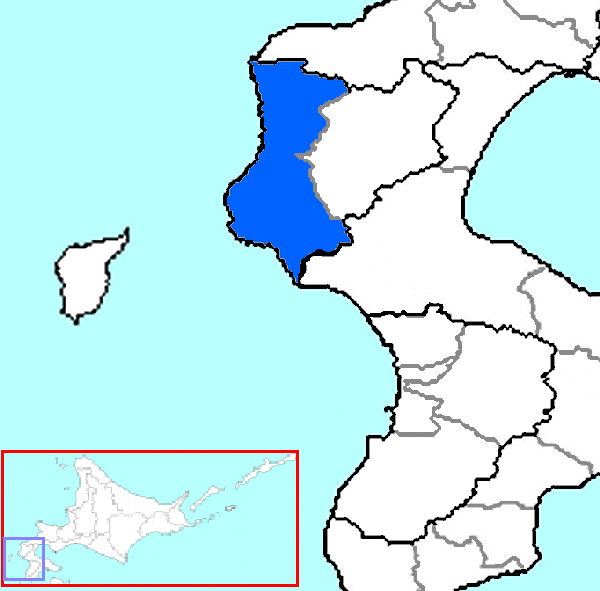 The location of Assabu in Hiyama Subprefecture, Hokkaido Prefecture, Japan.